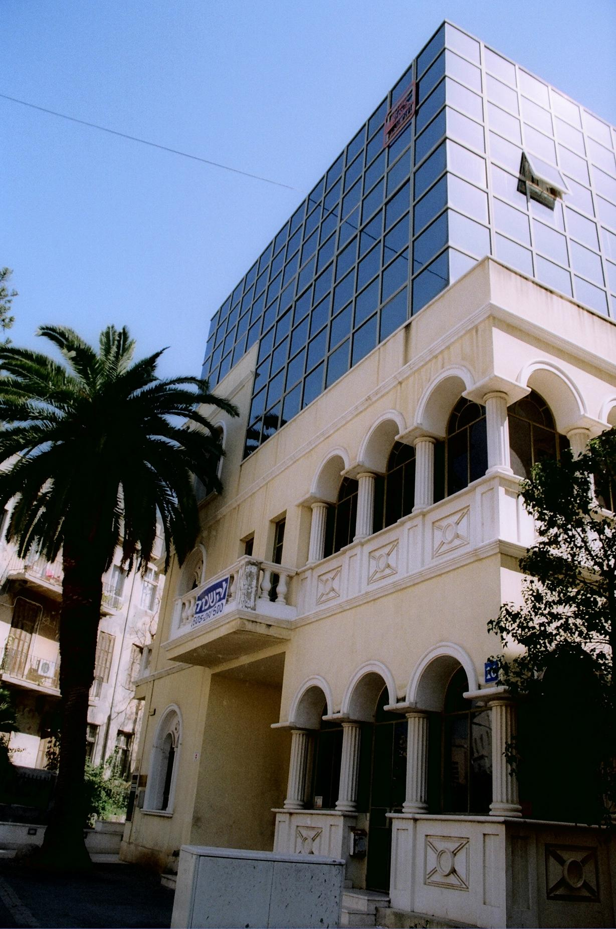 16 Lavontin St., Tel Aviv